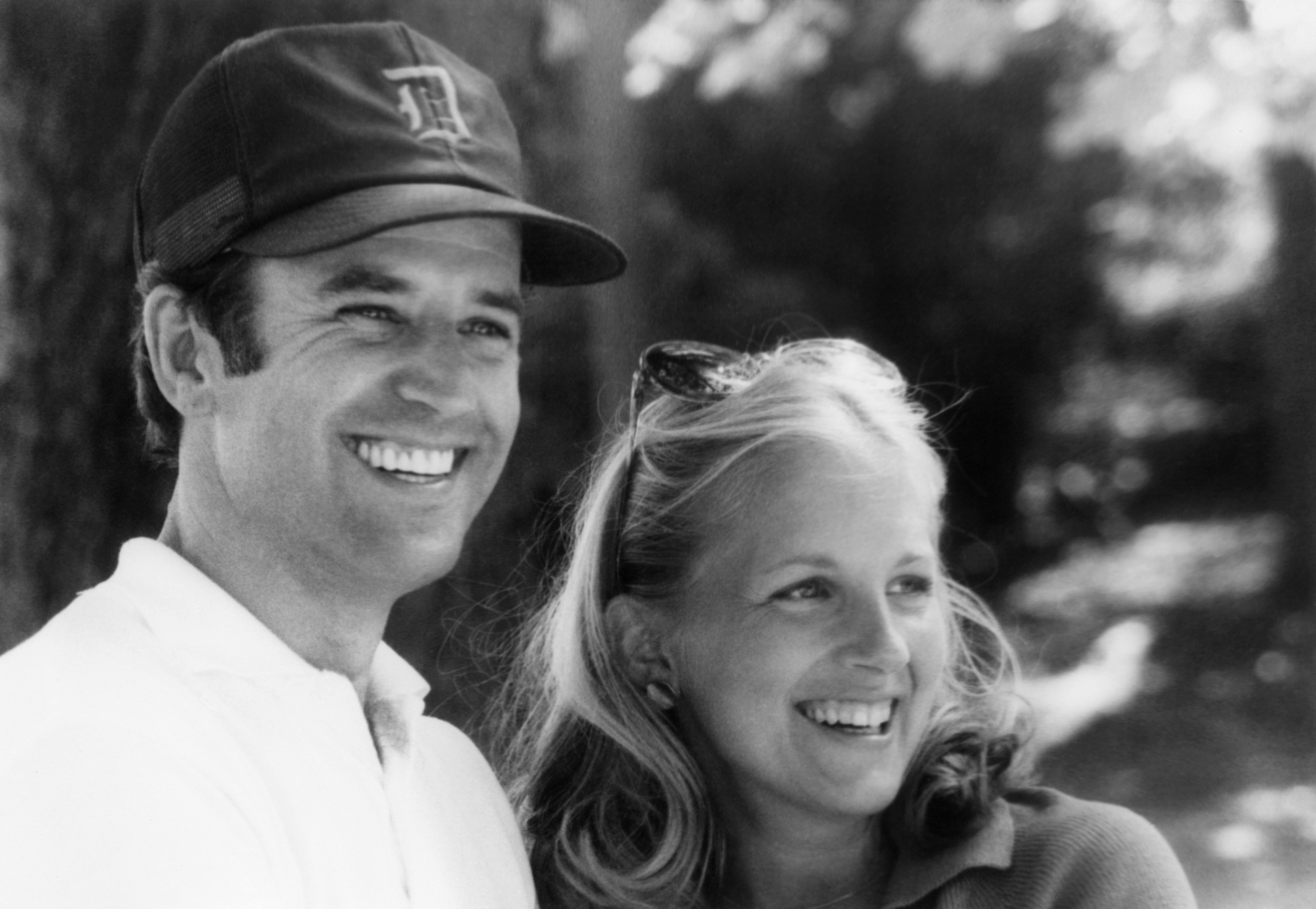 Joe and Jill Biden soon after they met.